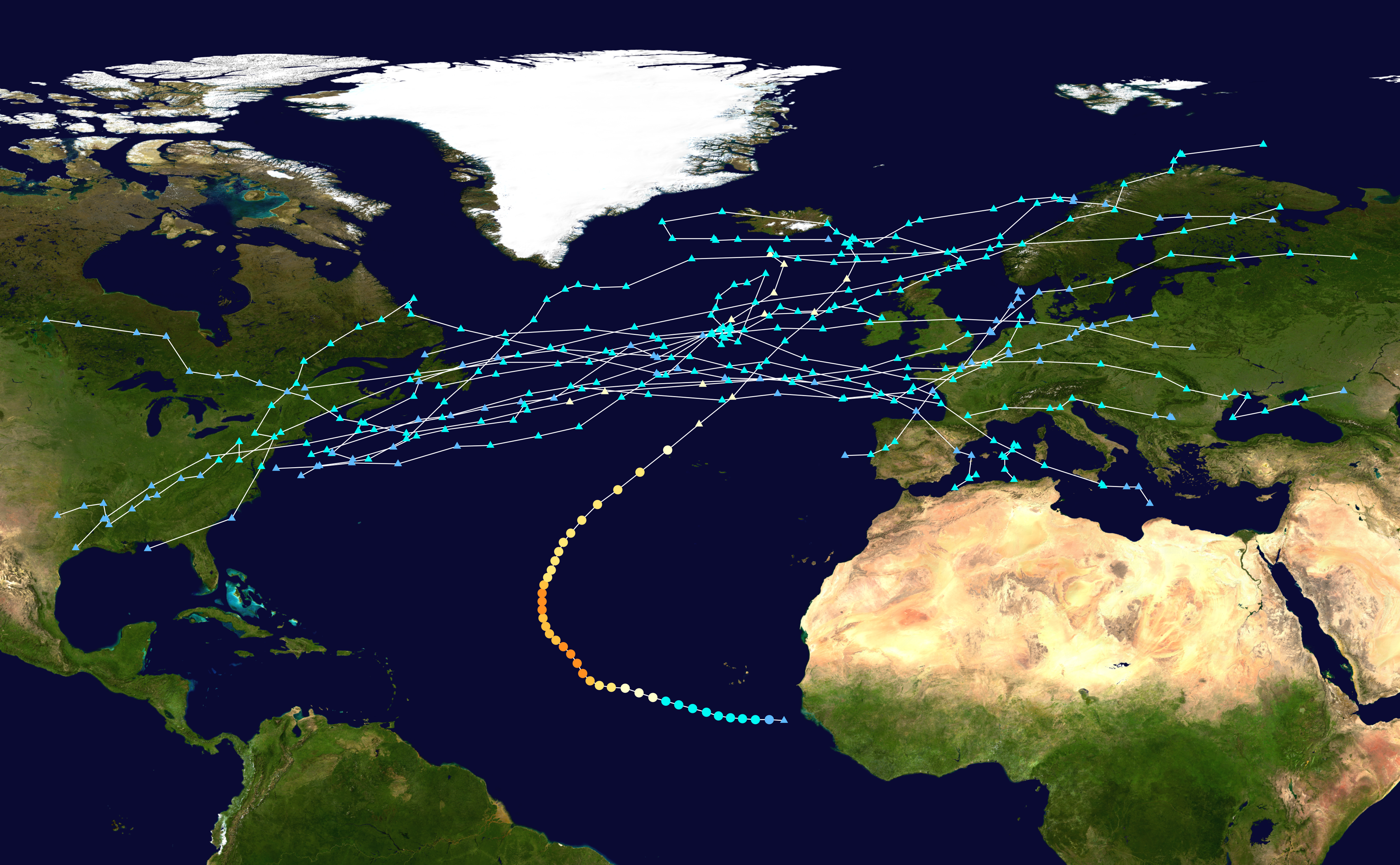 Map of European windstorms of the 2019-20 European windstorm season. The points show the location of the lowest pressure of each storm at 6-hour intervals. The colour represents the storm's maximum sustained wind speeds as classified in the Saffir-Simpson Hurricane Scale (see below), and the shape of the data points represent the type of the storm. To recreate, use the following parameters: --extra 1 --dots 0.5 --lines 0.1 --res 4096. For input data, see below. Saffir–Simpson scale Tropical depression≤38 mph≤62 km/h Category 3111–129 mph178–208 km/h Tropical storm39–73 mph63–118 km/h Category 4130–156 mph209–251 km/h Category 174–95 mph119–153 km/h Category 5≥157 mph≥252 km/h Category 296–110 mph154–177 km/h Unknown Storm type Tropical cyclone Subtropical cyclone Extratropical cyclone / Remnant low / Tropical disturbance / Monsoon depression